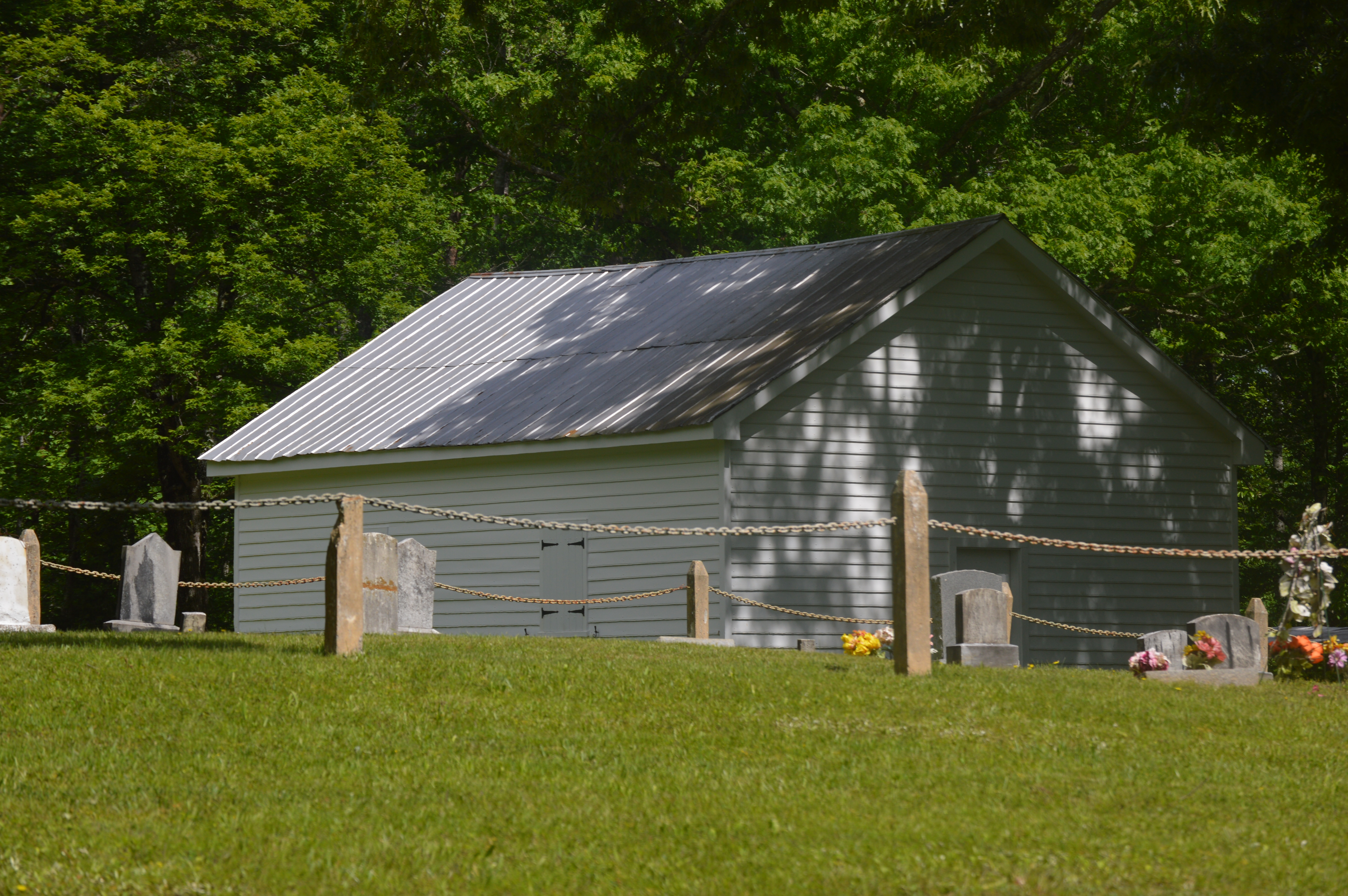 Roadside view of the Old Chapel Church, located at 436 Old Chapel Road south of Penhook in Franklin County, Virginia, United States. Built in 1769, it is listed on the National Register of Historic Places.